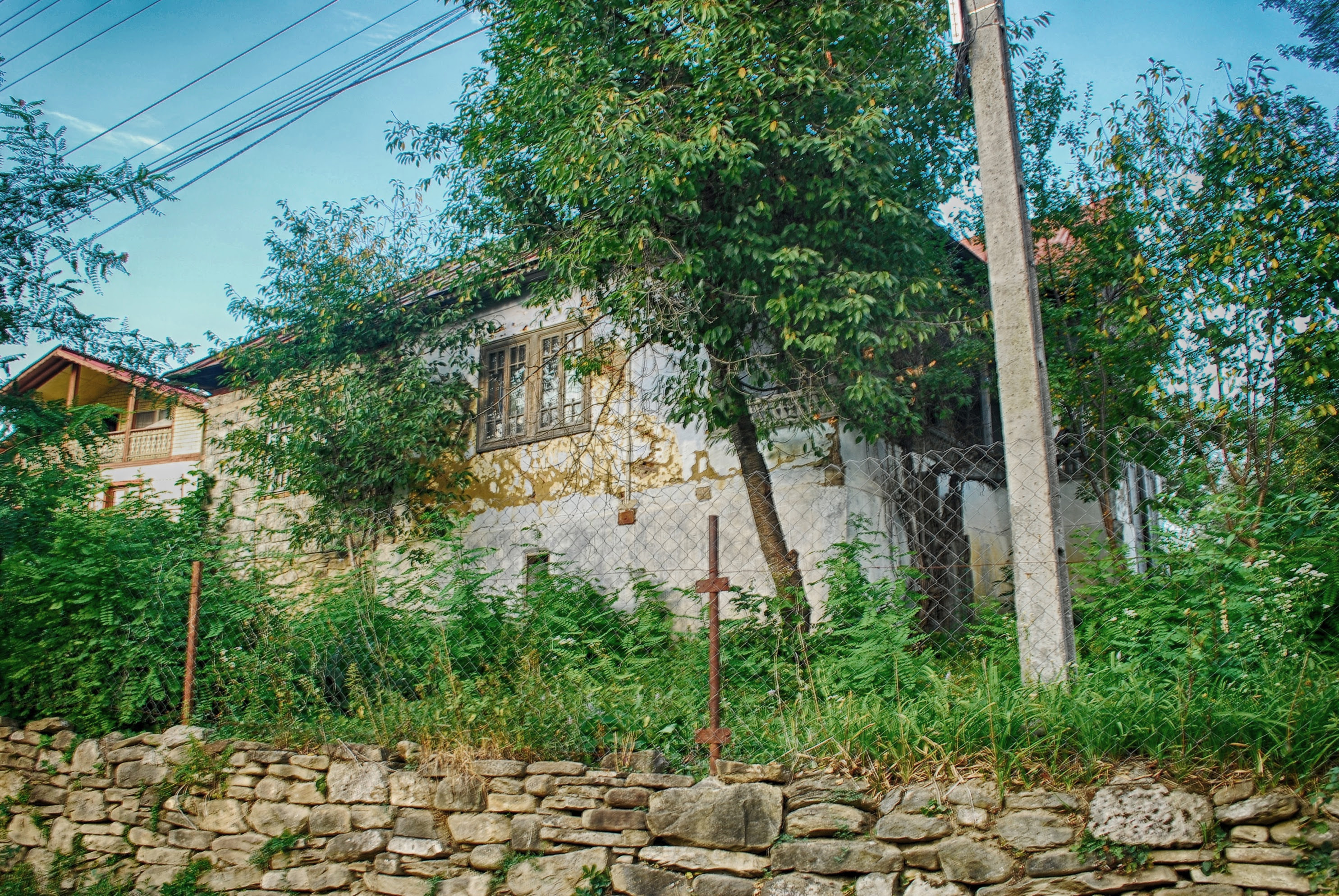 Octavian Zăhărăchescu house in Starchiojd, Prahova County, Romania